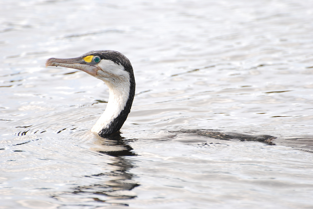 An Australia Pied Cormorant (also known as the Pied Cormorant or Pied Shag) swimming in the sea by the seashore in New Zealand.